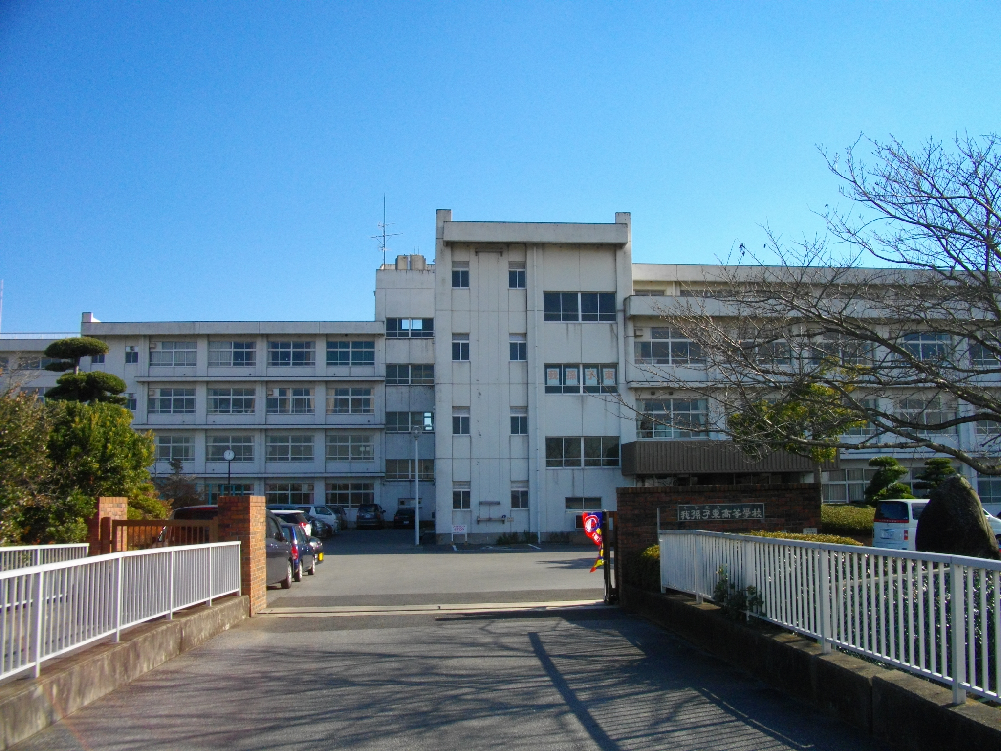 Abiko-Higashi High School